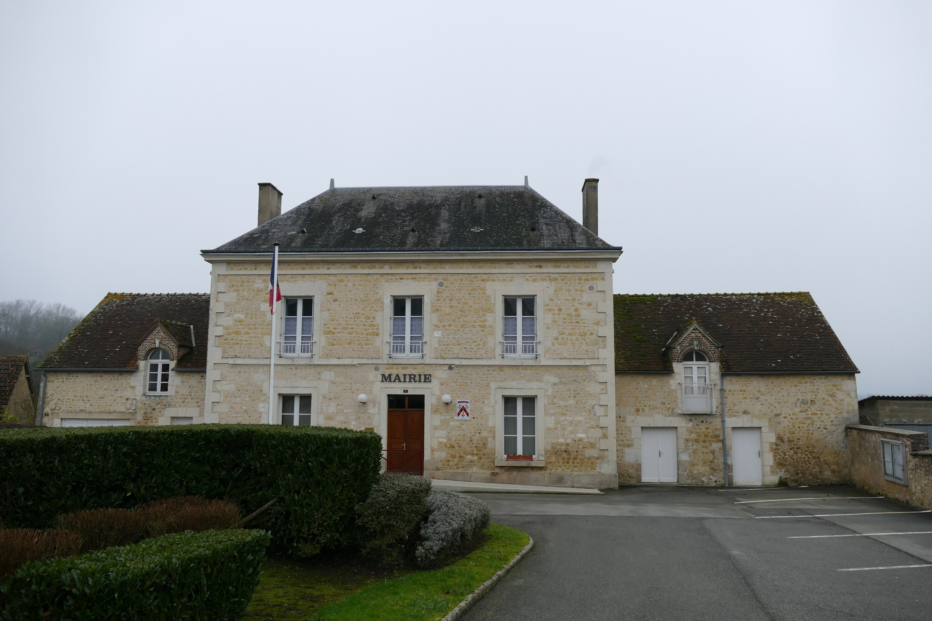 The city hall in Coulimer (Orne, Normandie, France).